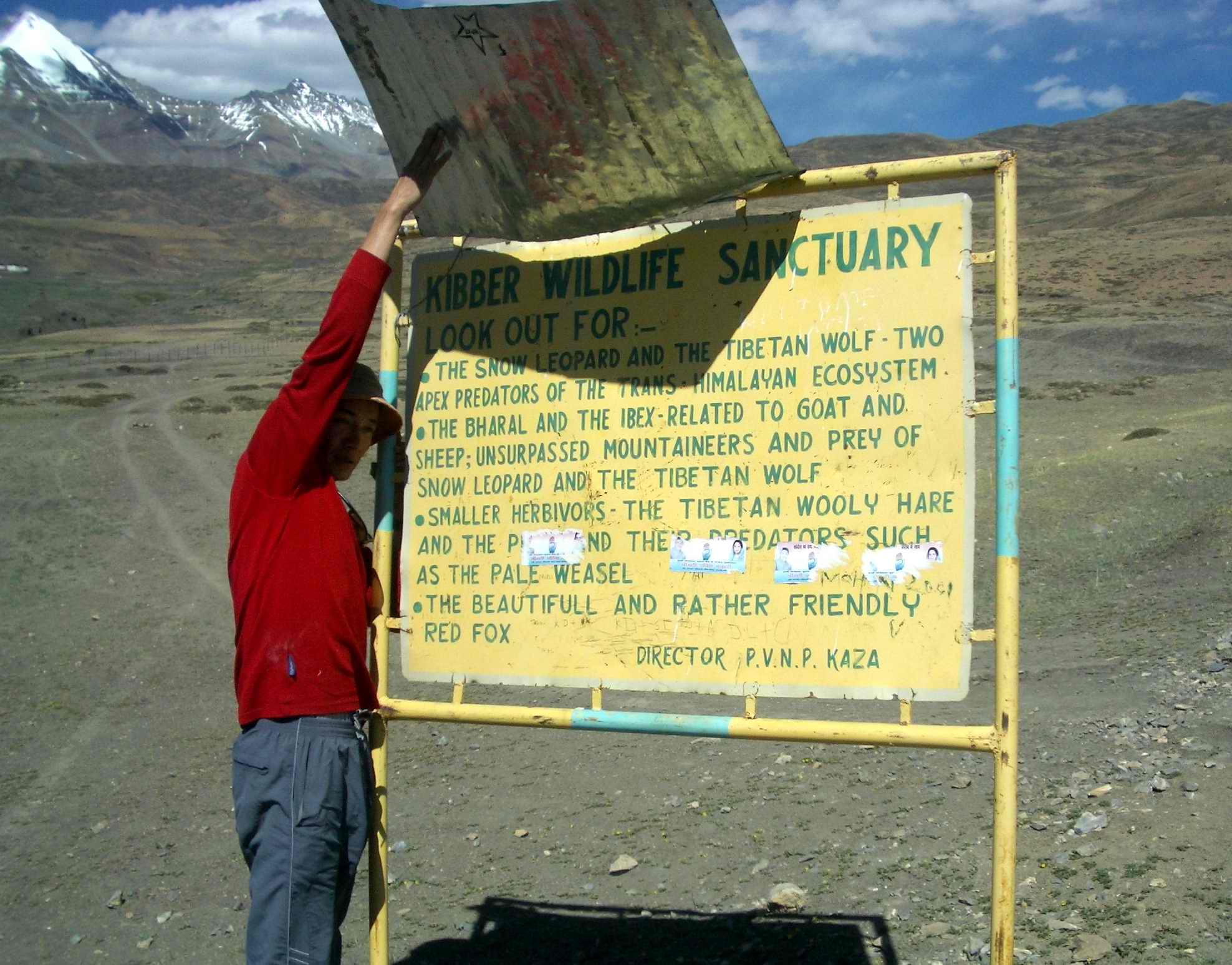 This sign has a delightful message about some of the animals to be found in the Kibber Wildlife Sanctuary in Spiti